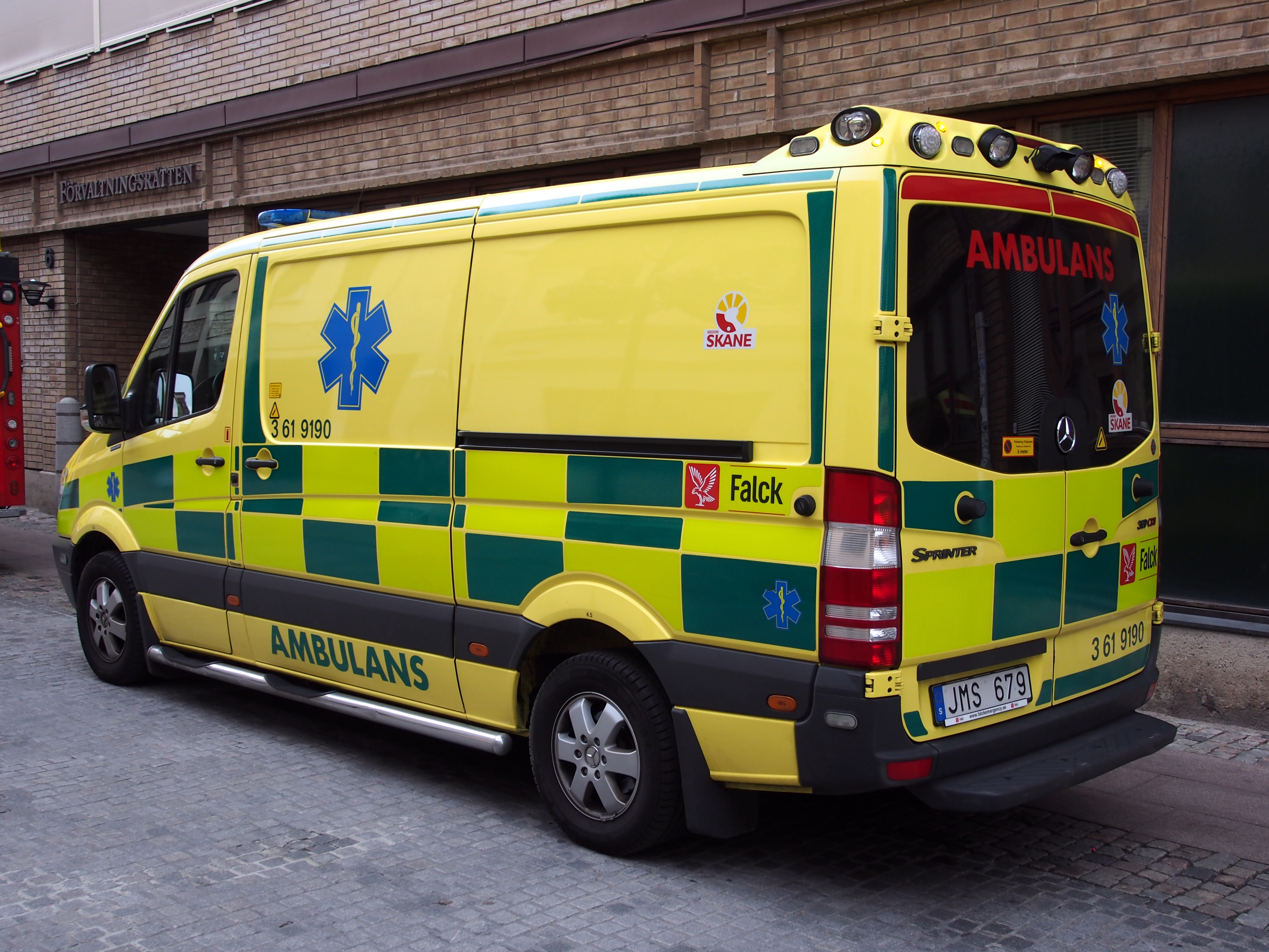 Photographed at Malmö, Sweden.